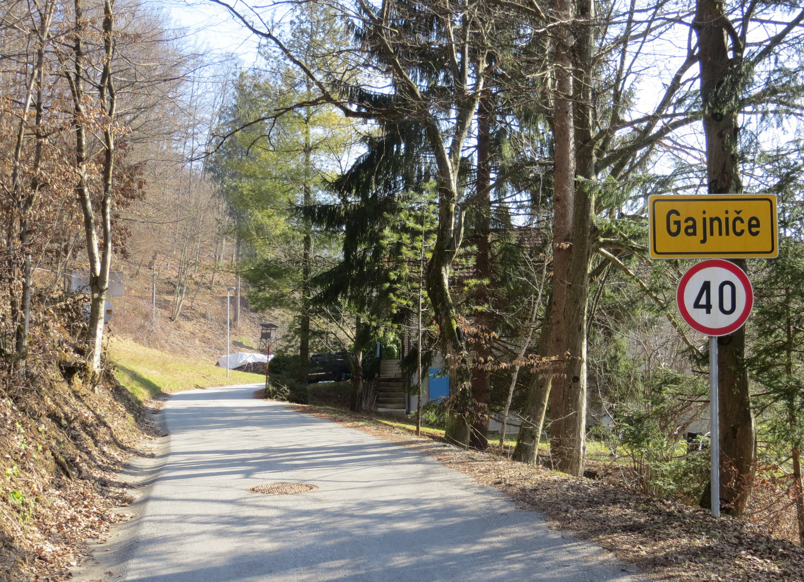 Gajniče, Municipality of Grosuplje, Slovenia